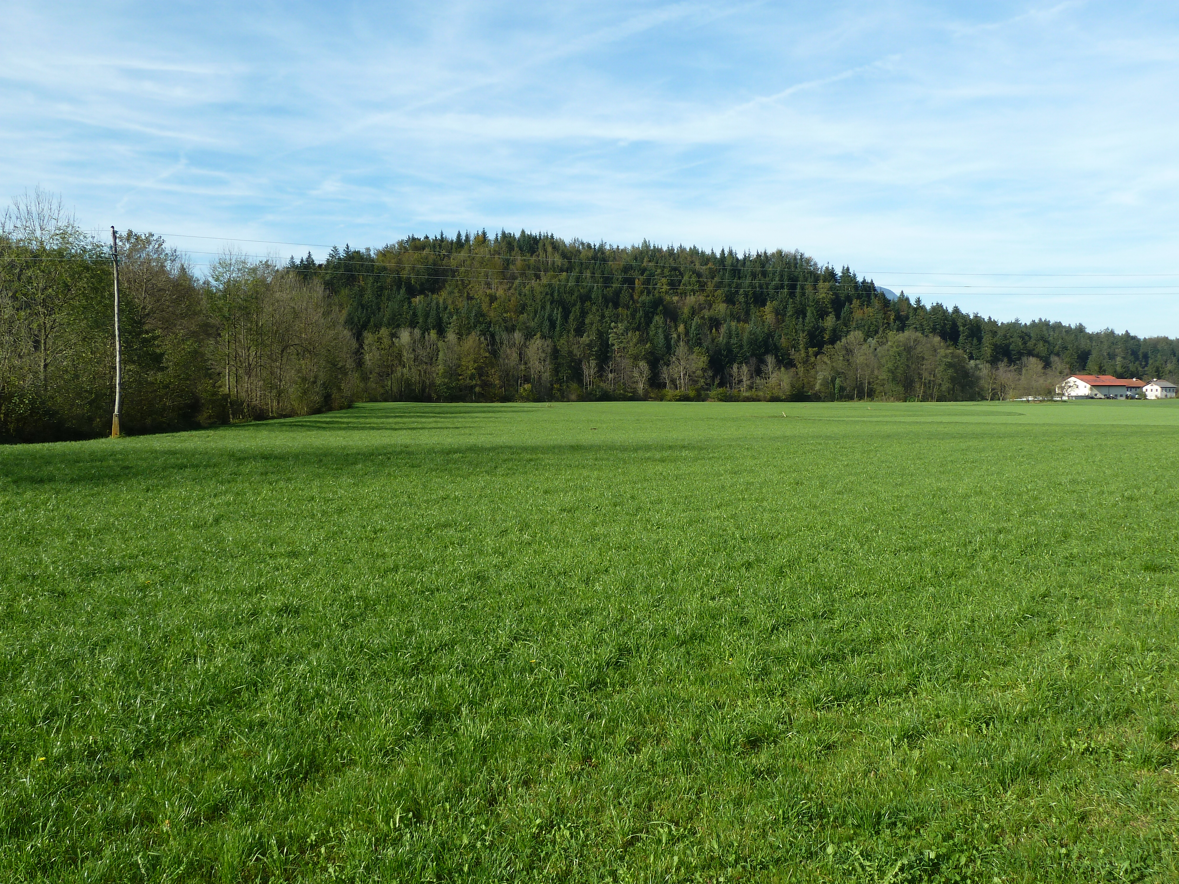 Flood plain on the right bank of Dreta River above the village of Pusto Polje